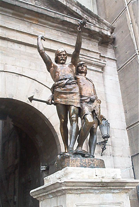 Iberic leaders, heroes of the resistance against the Roman Empire